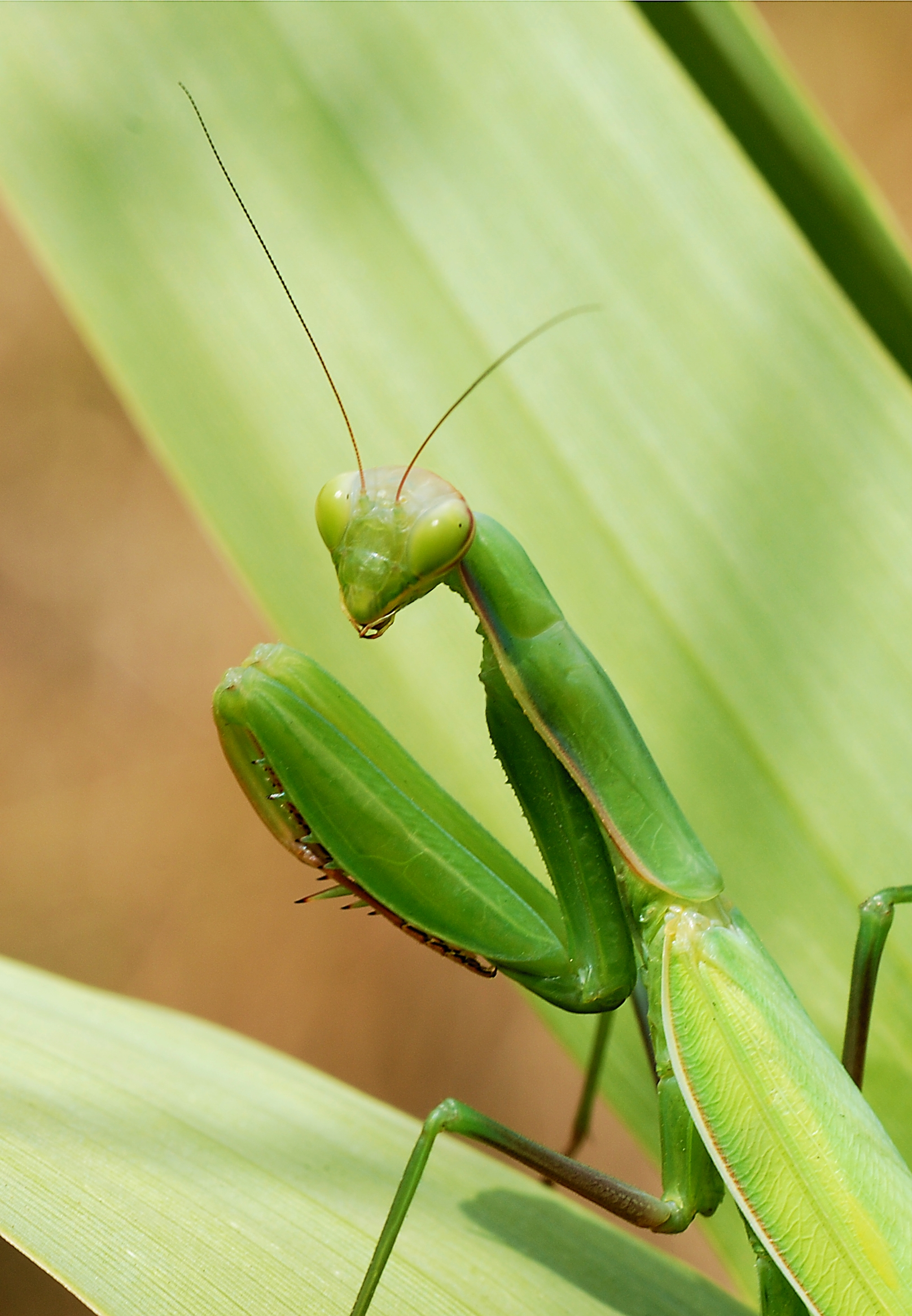 Mantis religiosa. Lisboa, Portugal.